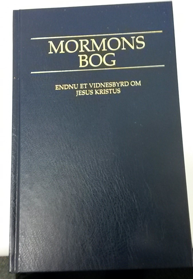 Copy of the BoM in Danish